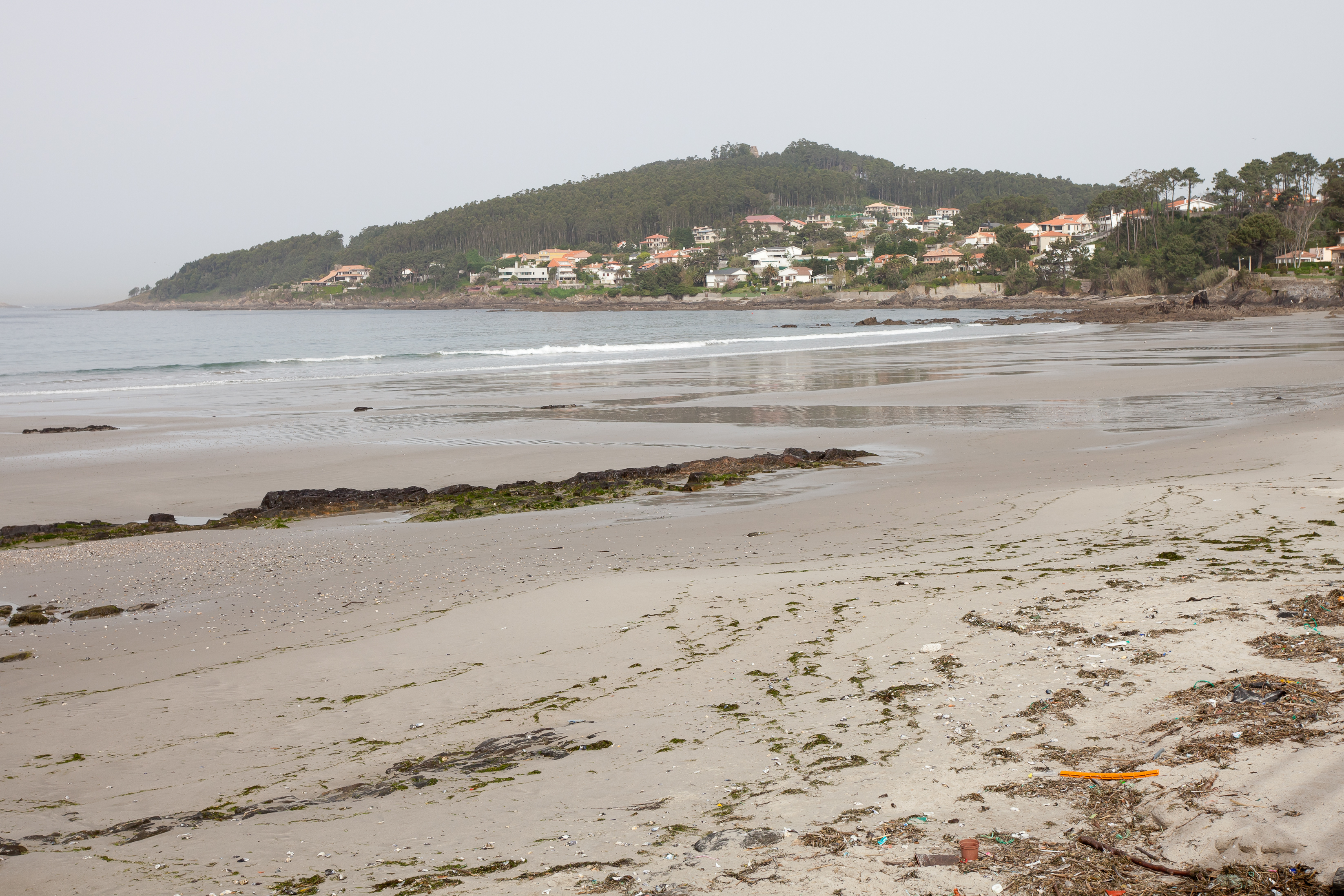 Beach of A Madorra, Panxón, Nigrán, Galicia (Spain)